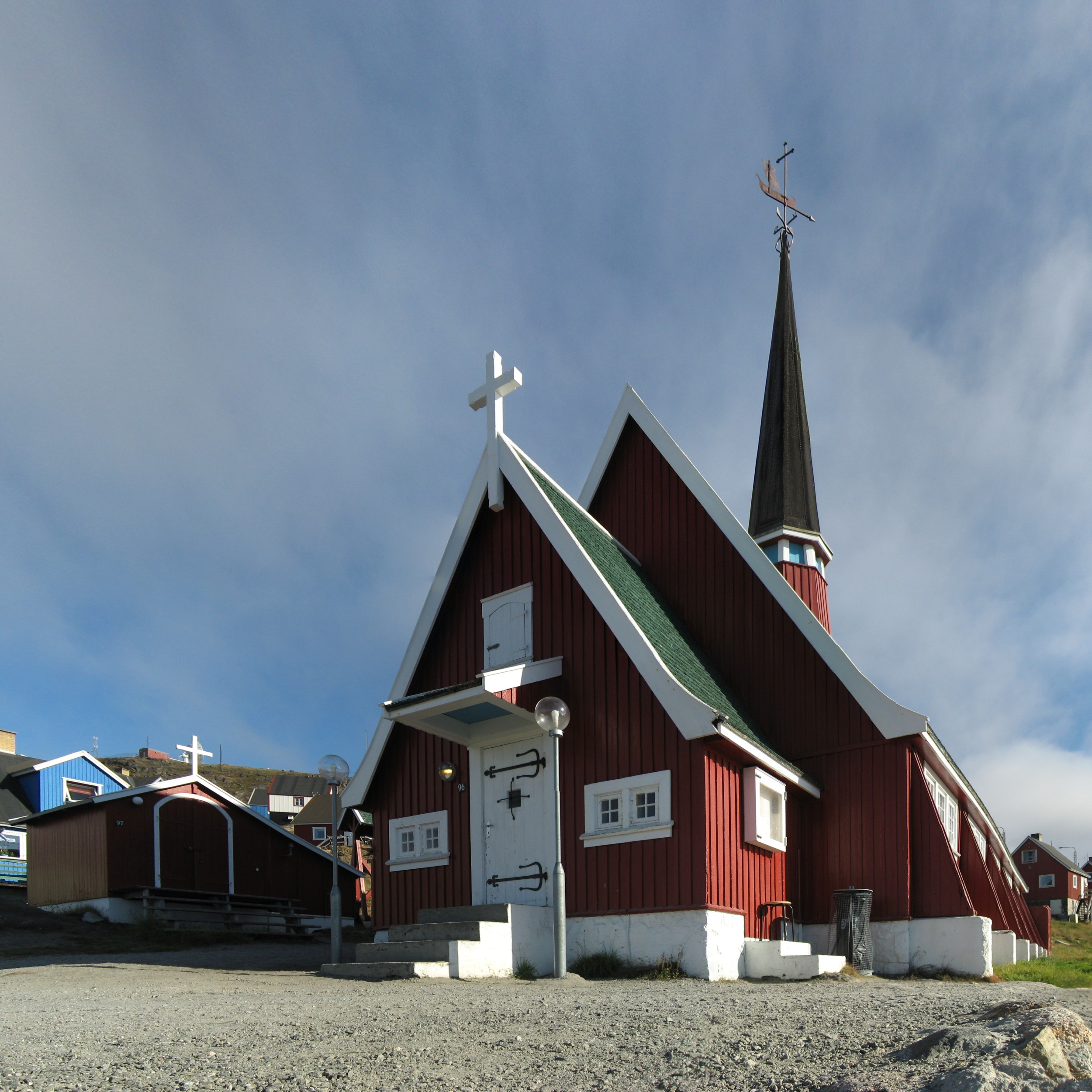 The church in Upernavik, Greenland. The image is a composite of 3x3 individual handheld photos taken with a Canon IXUS 800 IS camera and stitched in Hugin using a rectangular projection. Croppped and downsampled to 2500x2500 in GIMP. Unfortunately the final result has obvious and (I think) non-recoverable stitching errors due to parallax movement of the camera.